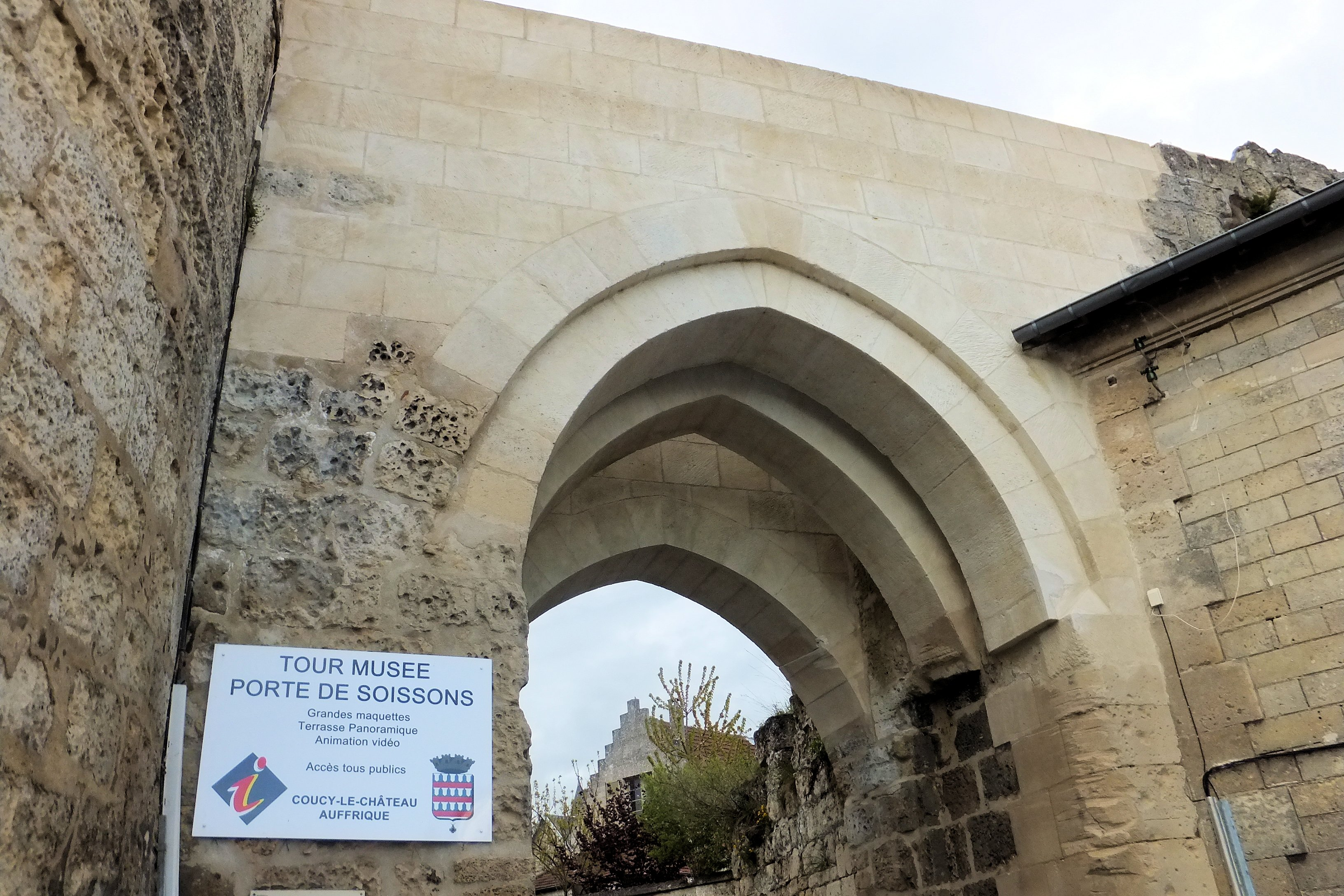 Voutes reconstruites en 2009